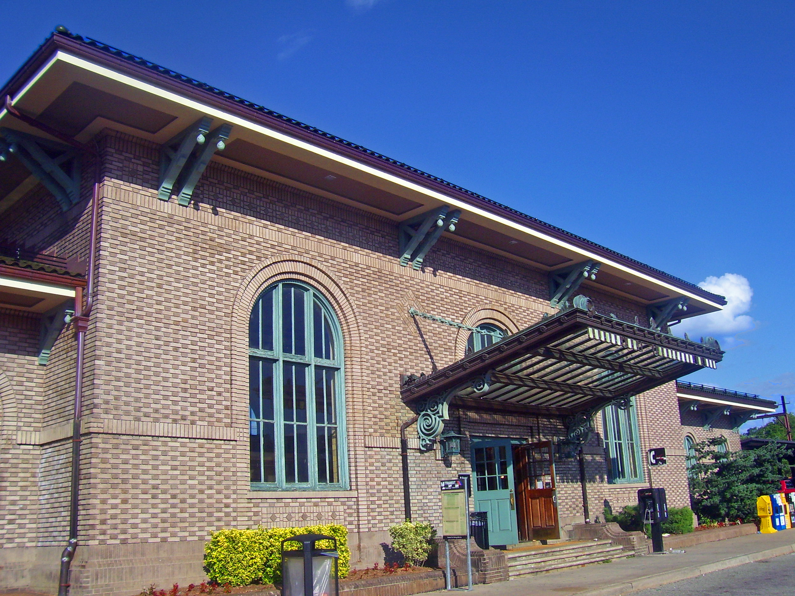 Main entrance of Morristown, NJ, USA, train station